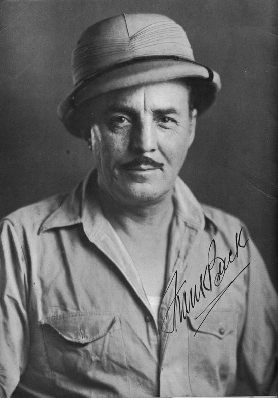 Autographed photo of American animal collector Frank Buck, from Capturing Wild Elephants!, his souvenir booklet from Frank Buck's Jungleland at the 1939 New York World's Fair. The original booklet was copyright 1940 by Frank Buck, but Buck died in 1950 and the copyright was not renewed.